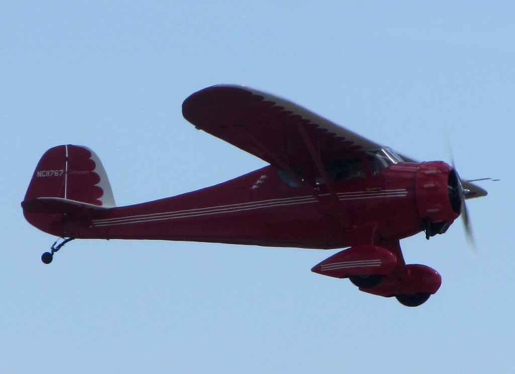 Monocoupe90A